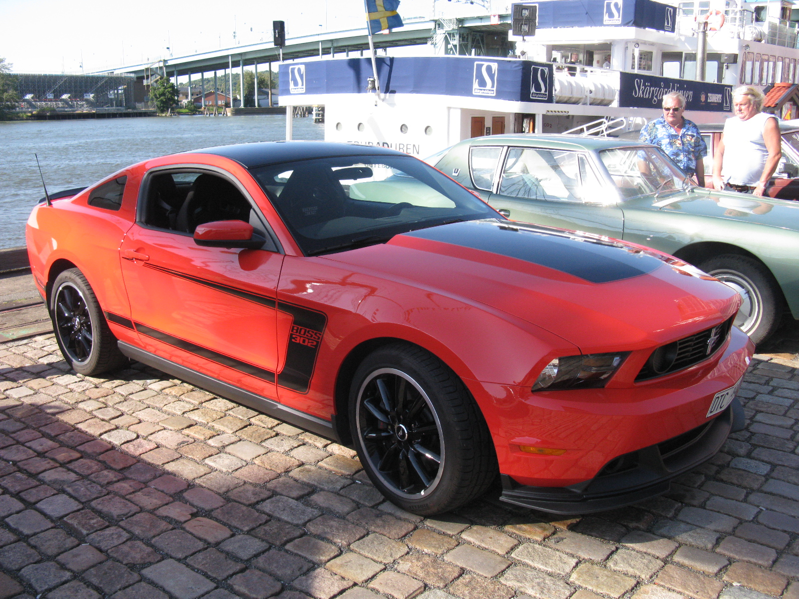 Ford Mustang Boss 302